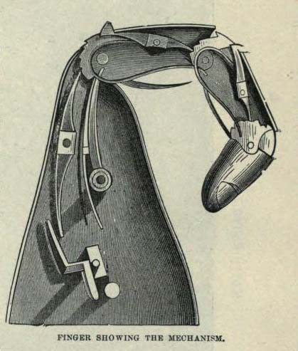 Mechanism of the second Iron Hand of Götz von Berlichingen (prosthesis, ca. 1530).